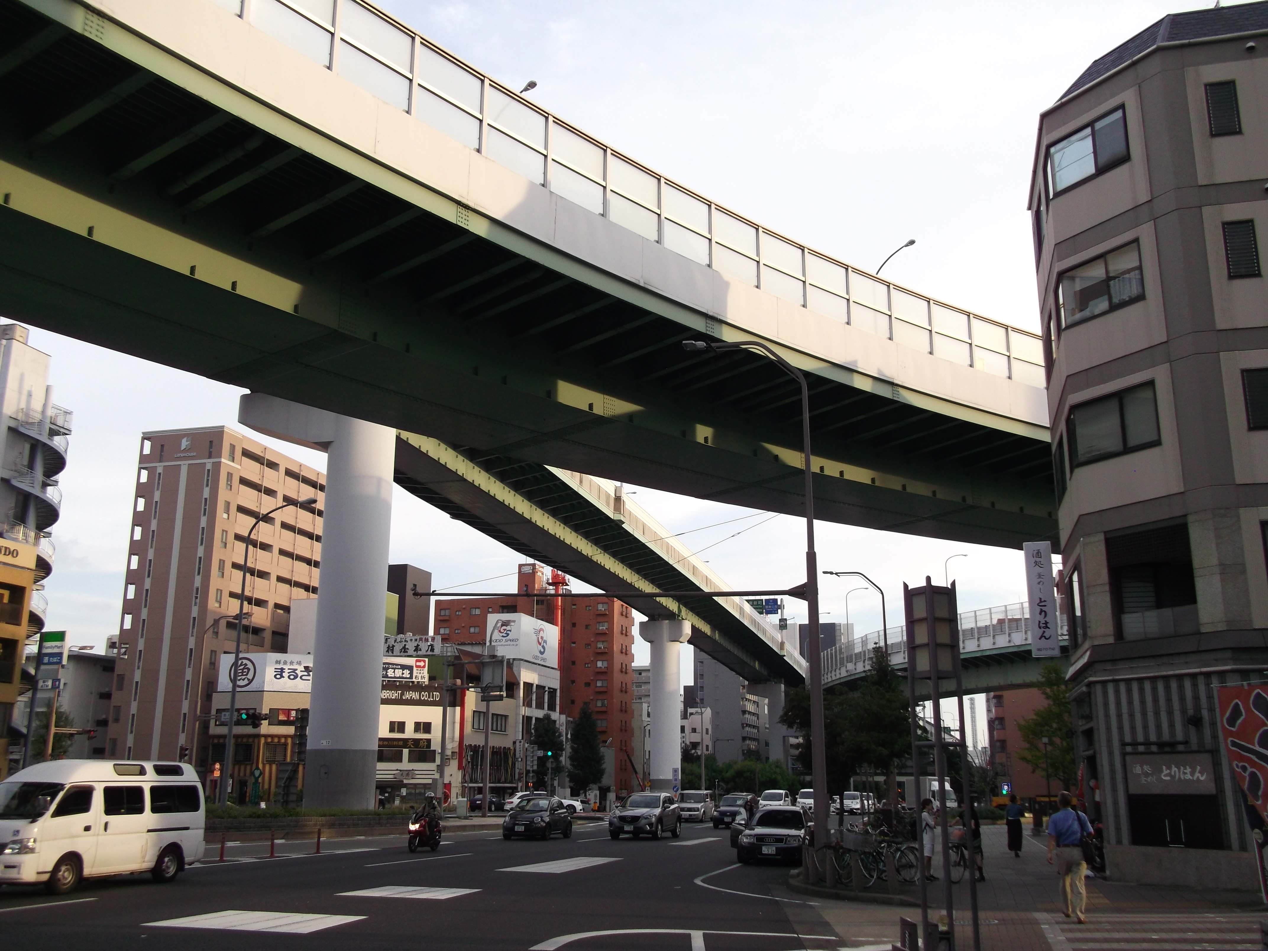 Higashikataha Junction on the Nagoya Expressway Ring Route and Route 1 in Higashi-ku, Nagoya City